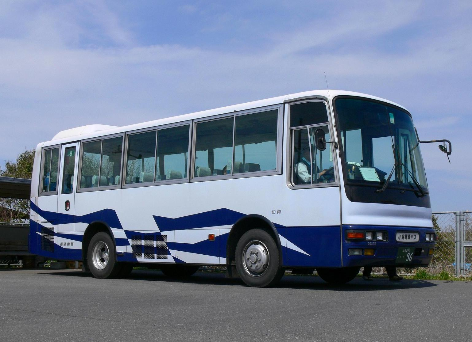 This bus is a Toride City community bus that the Kanto Railways bus operates[Bus of ohori circulation route](Japan･Ibaraki). It takes a picture in the ohori bus stop in Toride City. 茨城県取手市で走る取手市コミュニティバスの小堀循環ルートのバス。 取手市より委託を受けて関鉄バスの取手営業所が運行している。 このバスは三菱ふそう・エアロミディ観光タイプの車両である。 小堀（おおほり）バス停にて撮影。